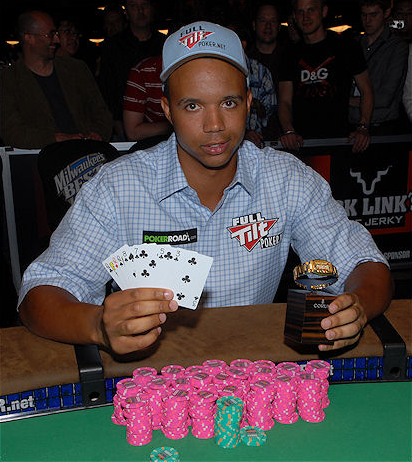 Phil Ivey, WSOP Champion Event #25 $2,500 Omaha/Seven Card Stud Hi/Lo 8-or-better